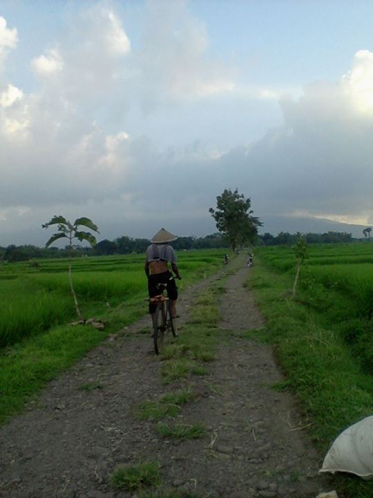 sawah